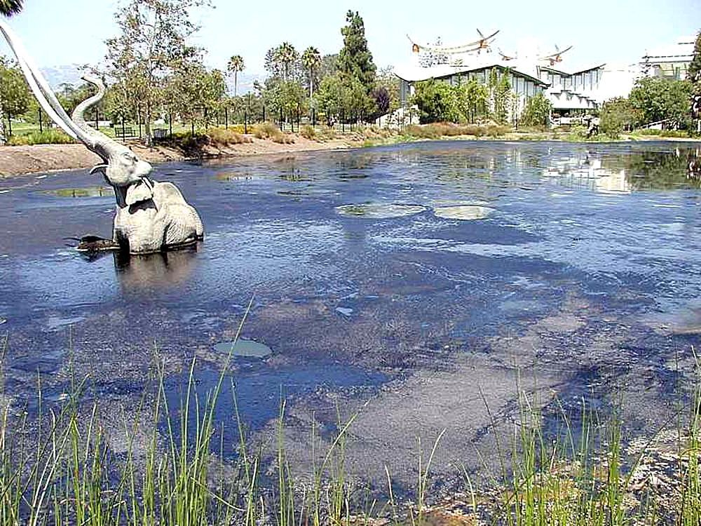 Image title: La brea tarpits ponds museums Image from Public domain images website